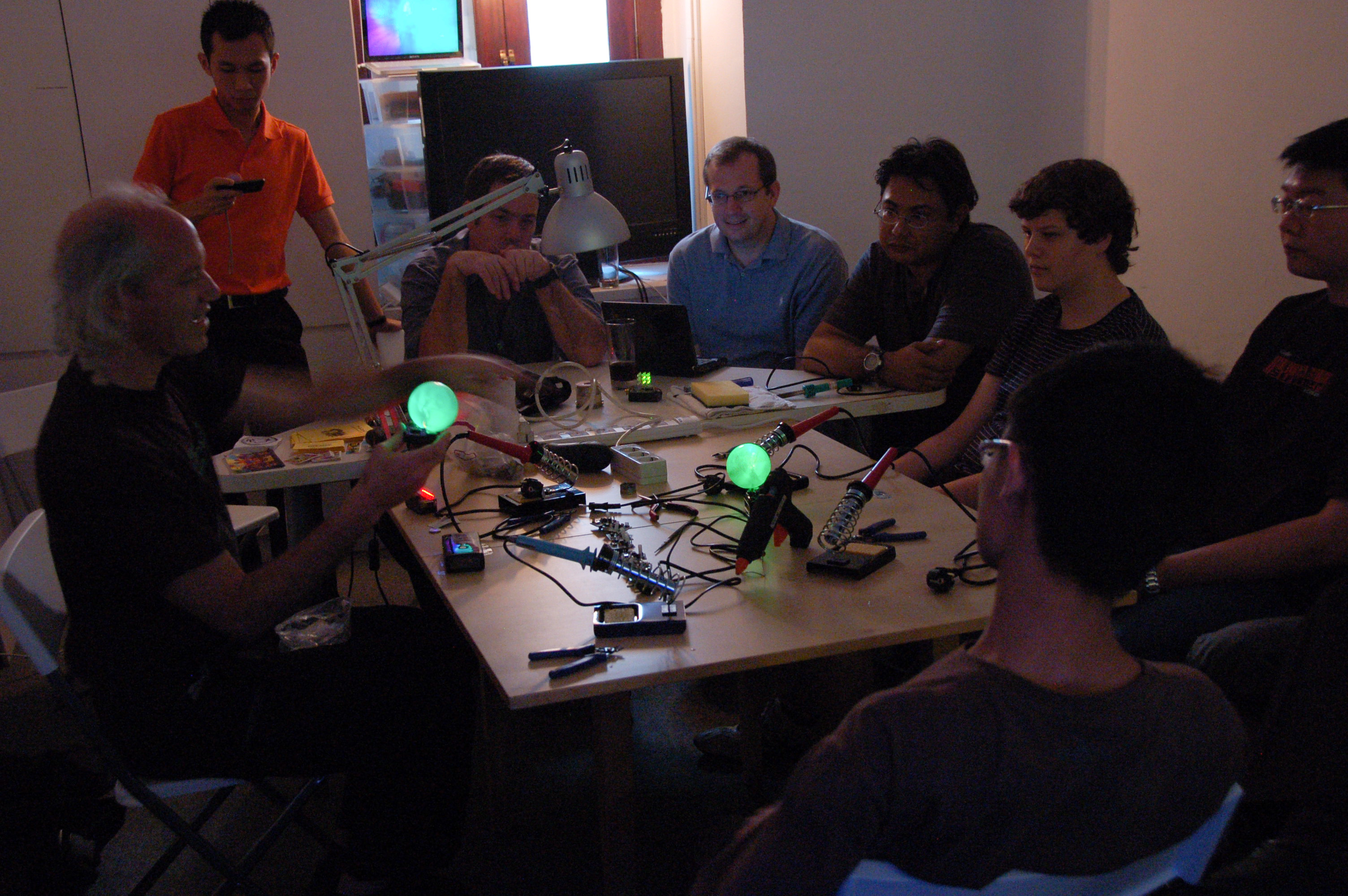 A workshop with Mitch Altmann at HackerspaceSG in Singapore